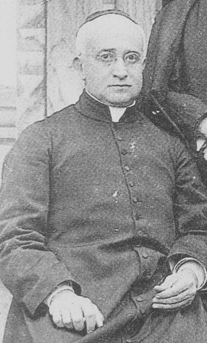 Priest Jose María de Yermo y Parres, Saint of the Catholic Church, in the house he founded "La Misericordía Cristiana" a few weeks before his death.